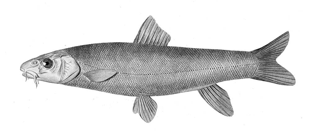 Schizothorax intermedius intermedius